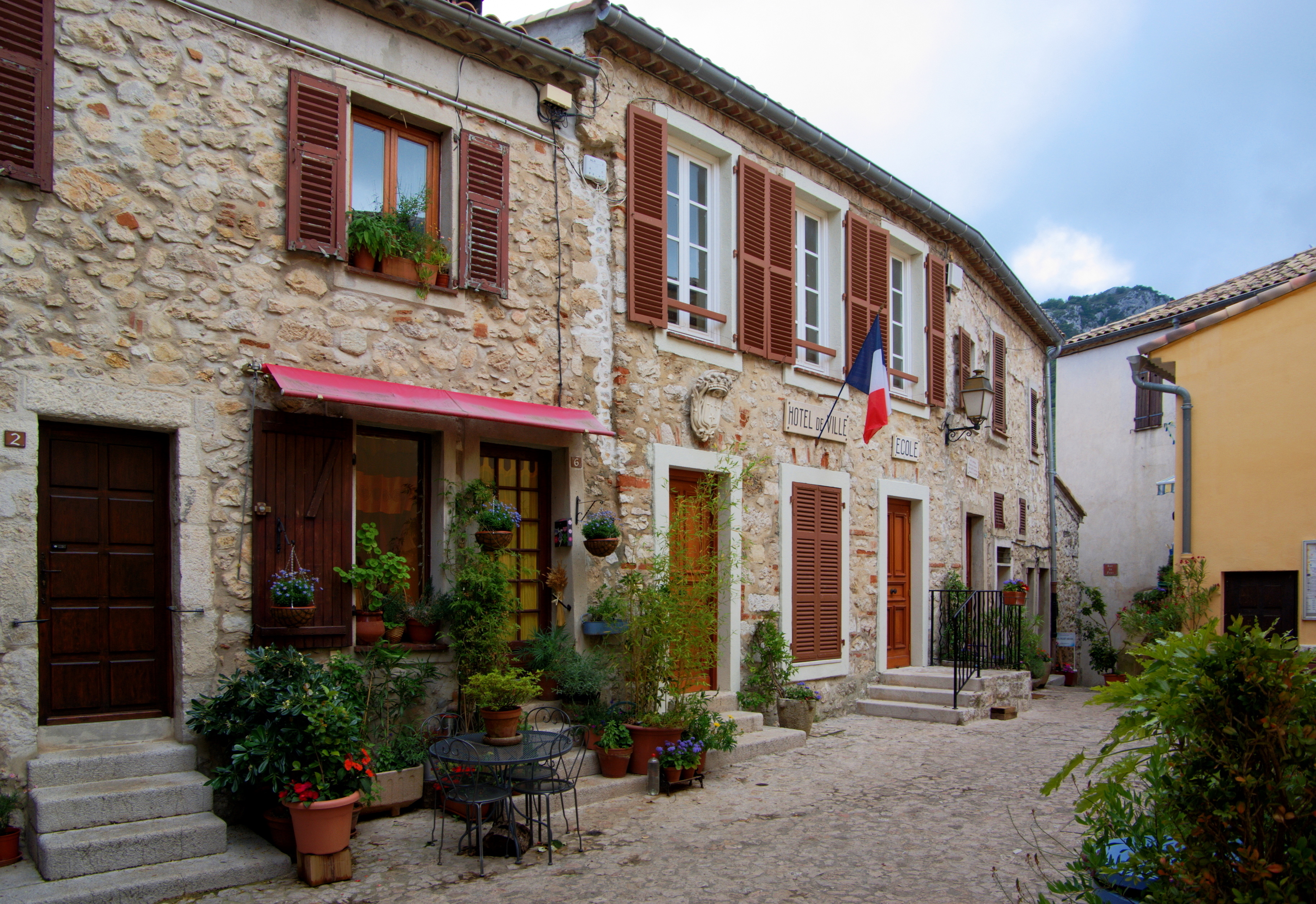 France, Sainte-Agnès, Alpes-Maritimes, town hall and school